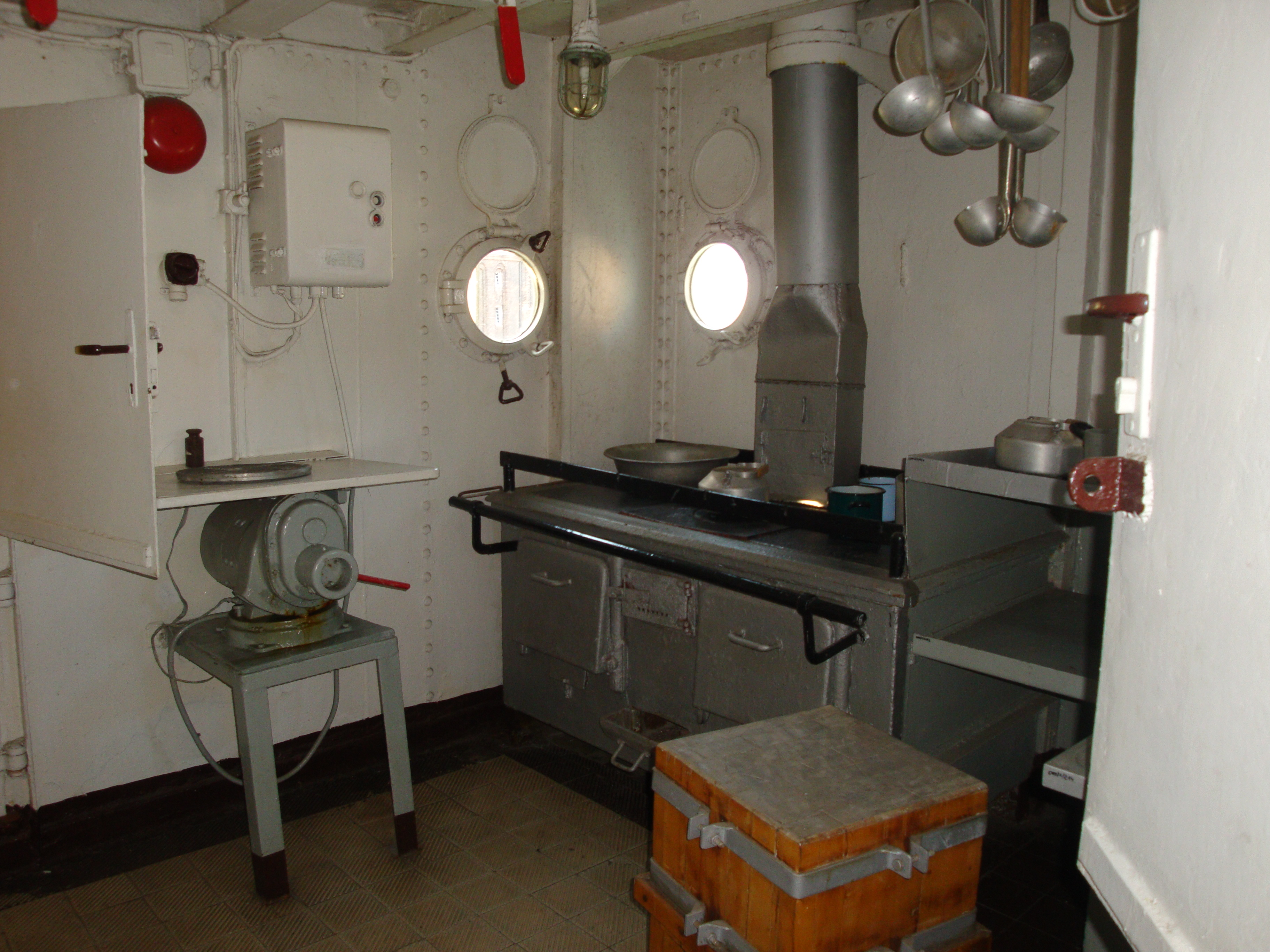 Museal ship S/S Sołdek in Gdańsk, Poland